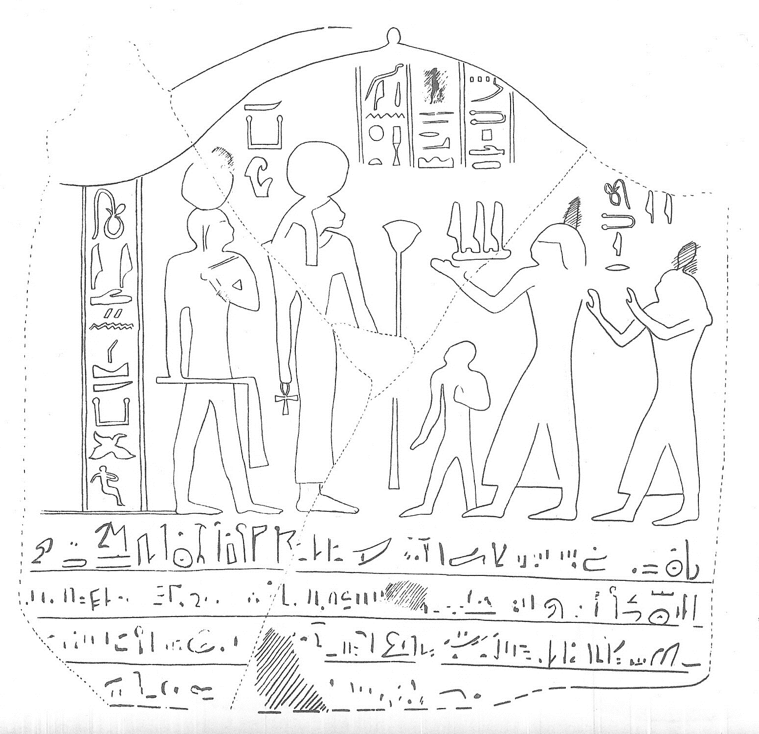 Drawing of an ancient Egyptian donation stela issued in regnal Year 8 of a pharaoh Shoshenq (previously believed to be Shoshenq V, now believed to be Shoshenq IV[1]) and mentioning the Chief of the Libu Niumateped. Probably from Kom Firin. Reign of Shoshenq IV, 22nd Dynasty, Third Intermediate Period. Private collection.